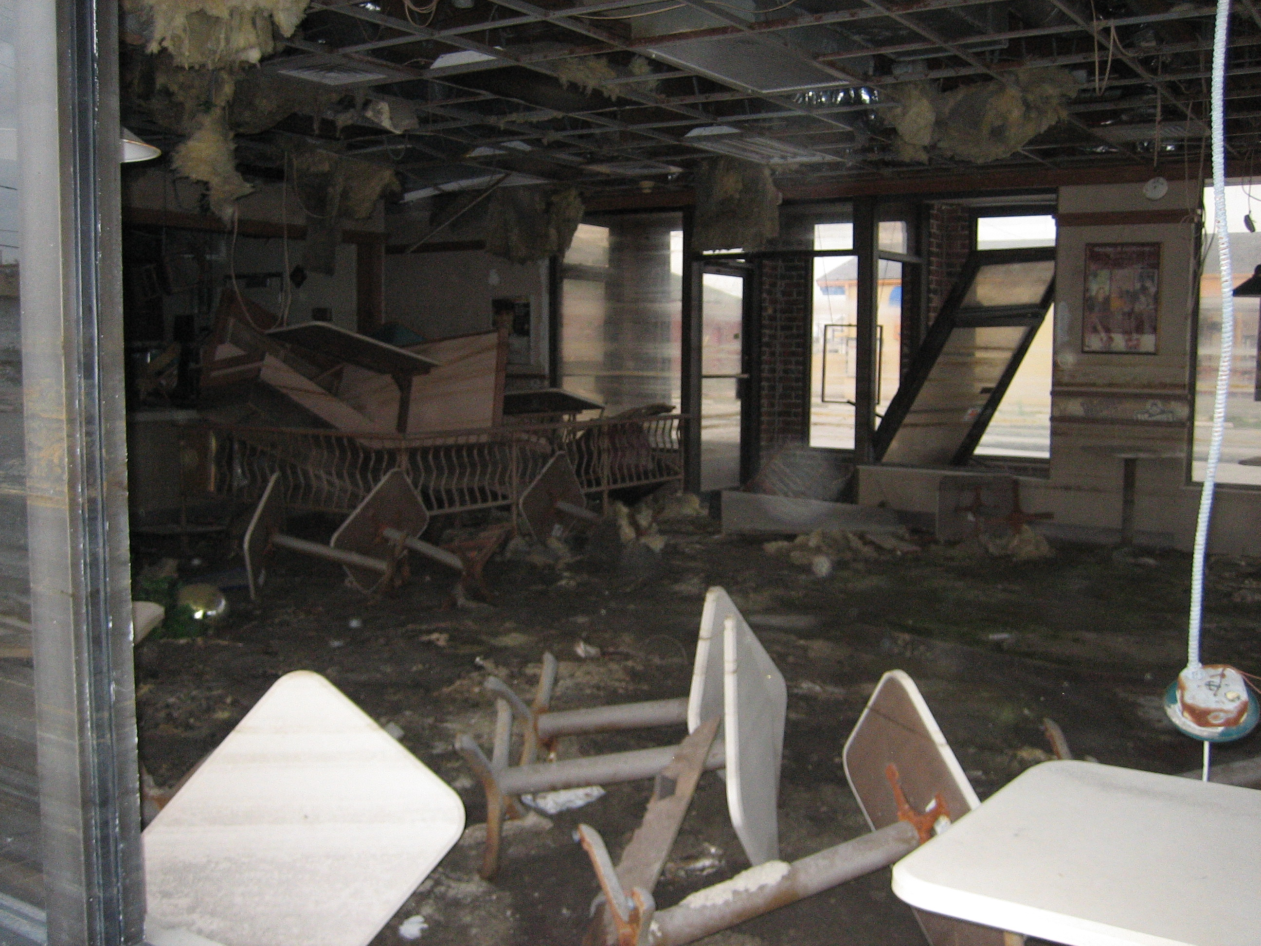 "Wendy's" fast food restaurant in formerly Hurricane Katrina storm surge flooded Chalmette, Louisiana.